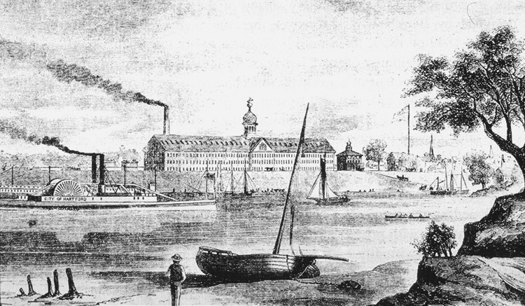 Engraving of Colt Armory, Hartford, Connecticut, USA, as seen from the opposite bank of the Connecticut River. Contemporary engraving from 1857. This is the original East Armory building, constructed 1855.